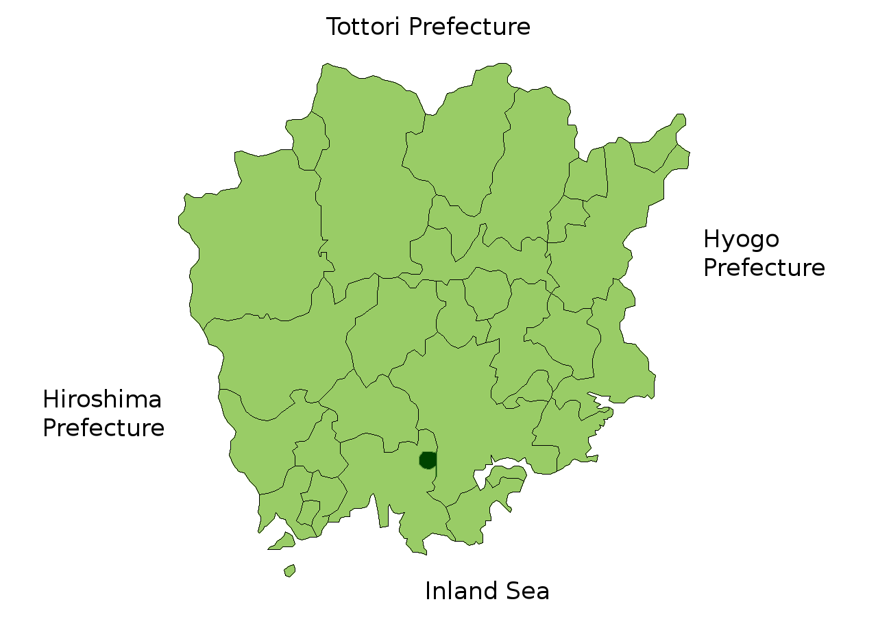 Map of Okayama Prefecture highlighting Hayashima town. Borders of map as of October, 2006. (blank map used from [1]) See also Image:OkayamaMapCurrent.png.